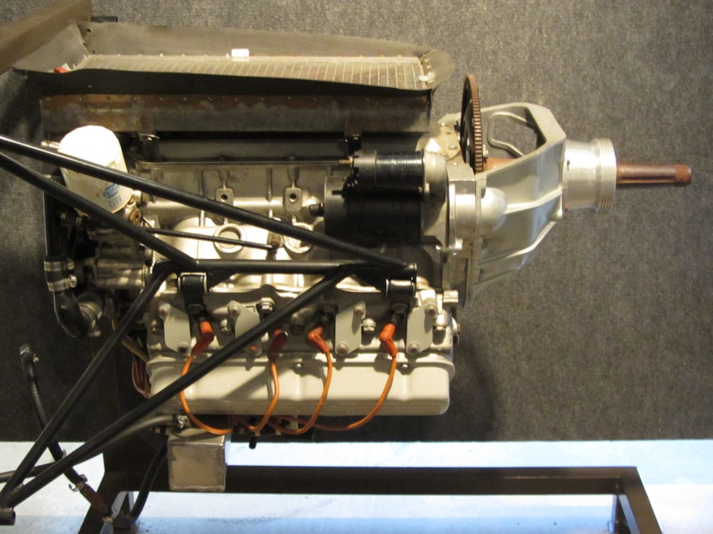 Steve Wittman Oldsmobile Aero Engine